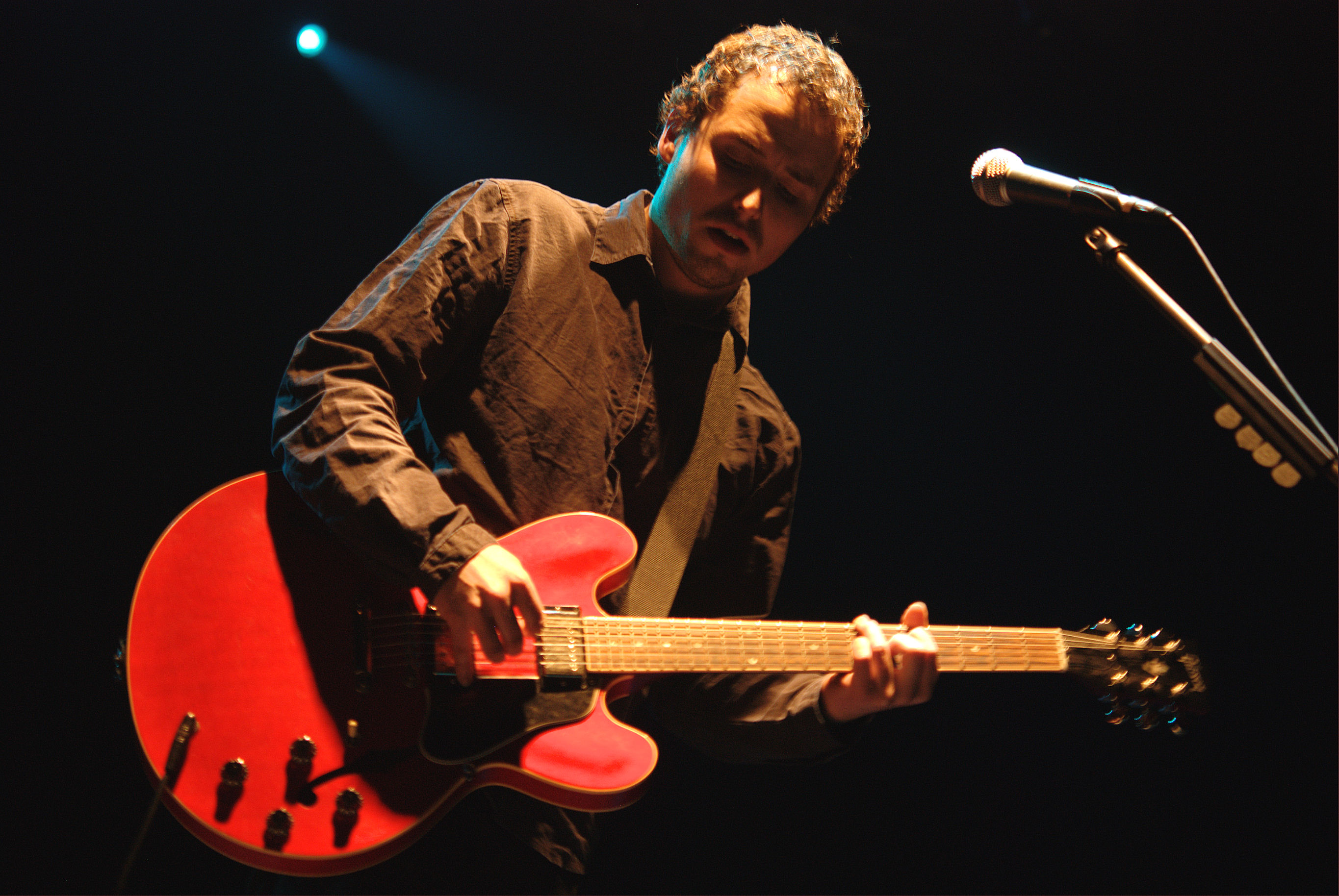 Taking of this photo was in cooperation with Rock-Serwis Publishing House (homepage)